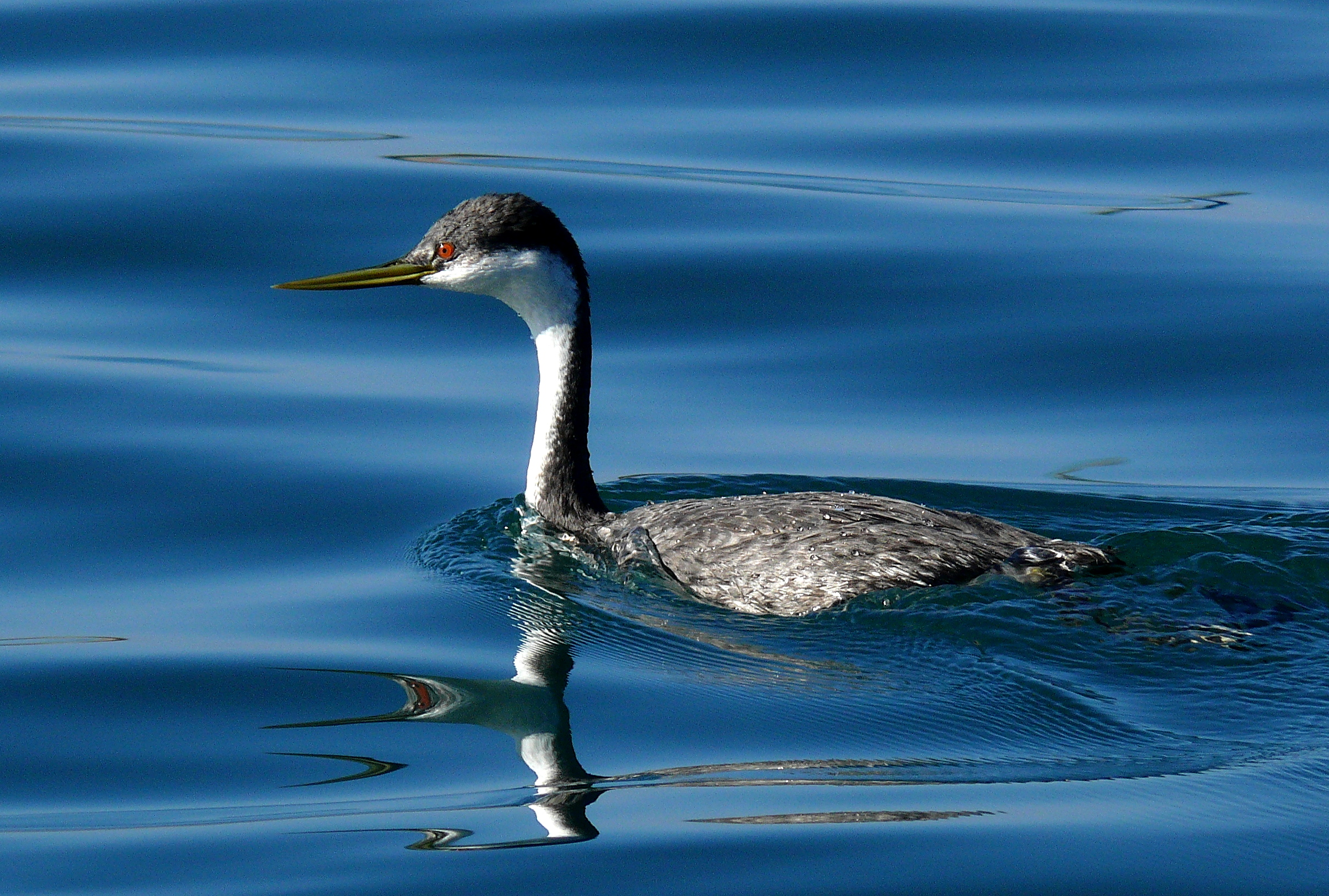 An adult Western Grebe swimming in California, USA.